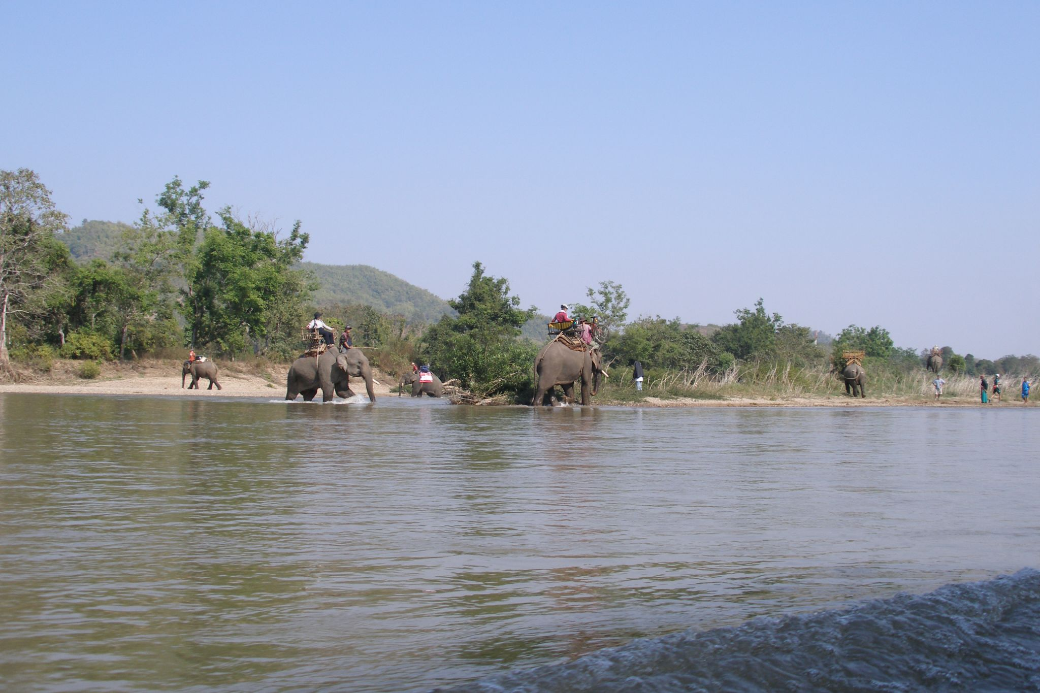 Kok river near Chiang Rai